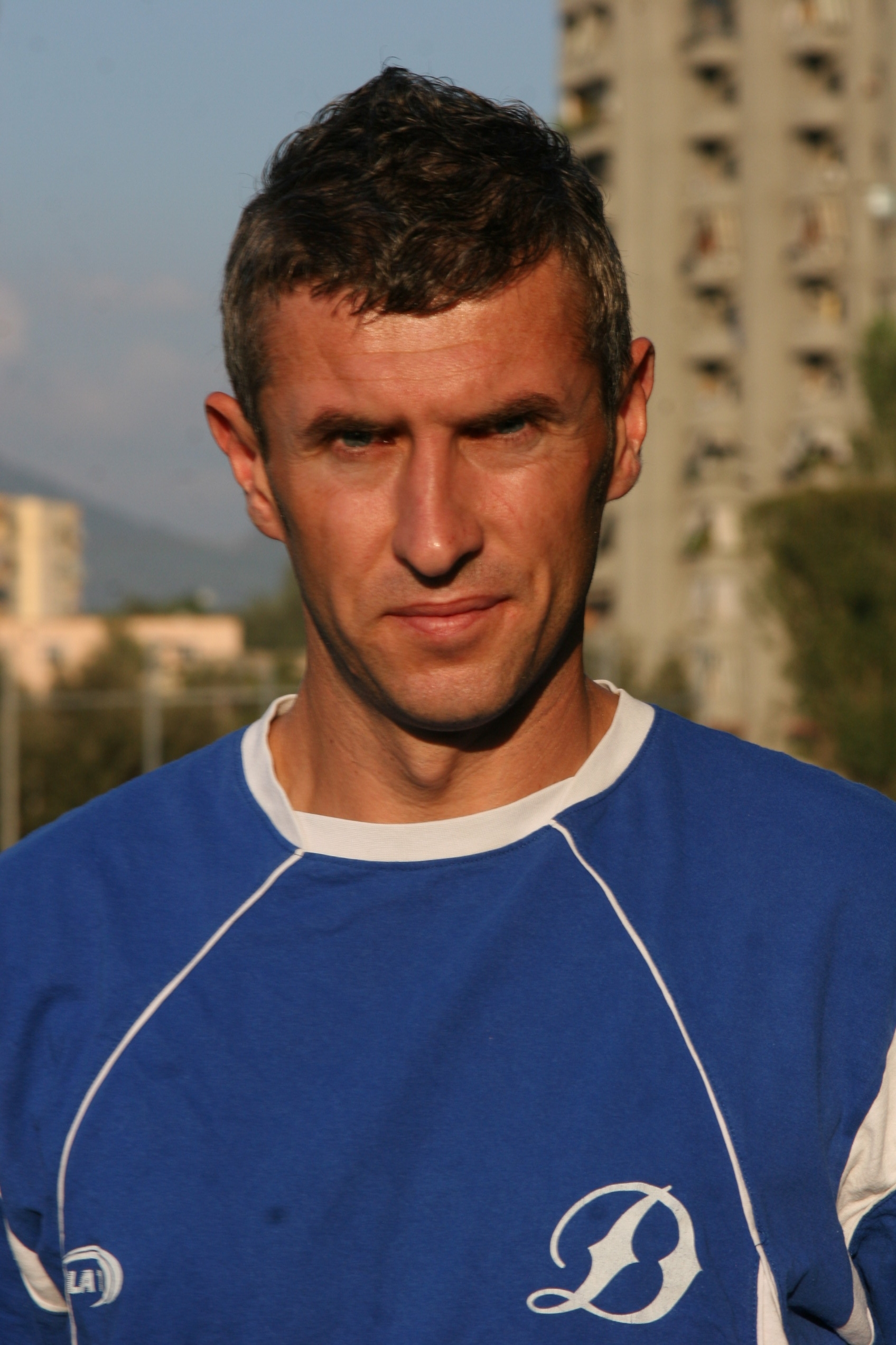 Nedim Halilovic' - NK Varteks, & Bosnian